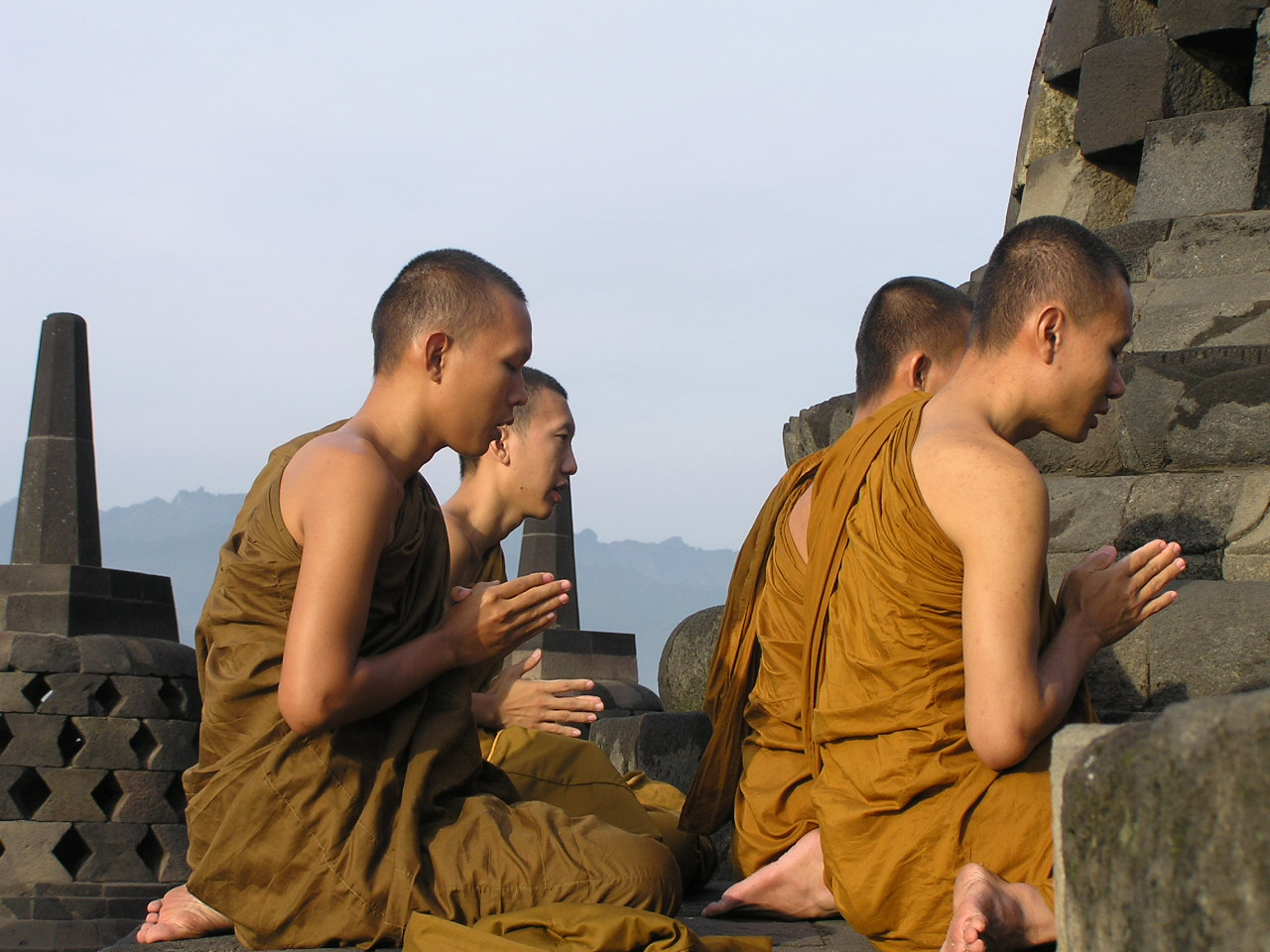 Buddist monks chanting at Borobudur, central Java, Indonesia.